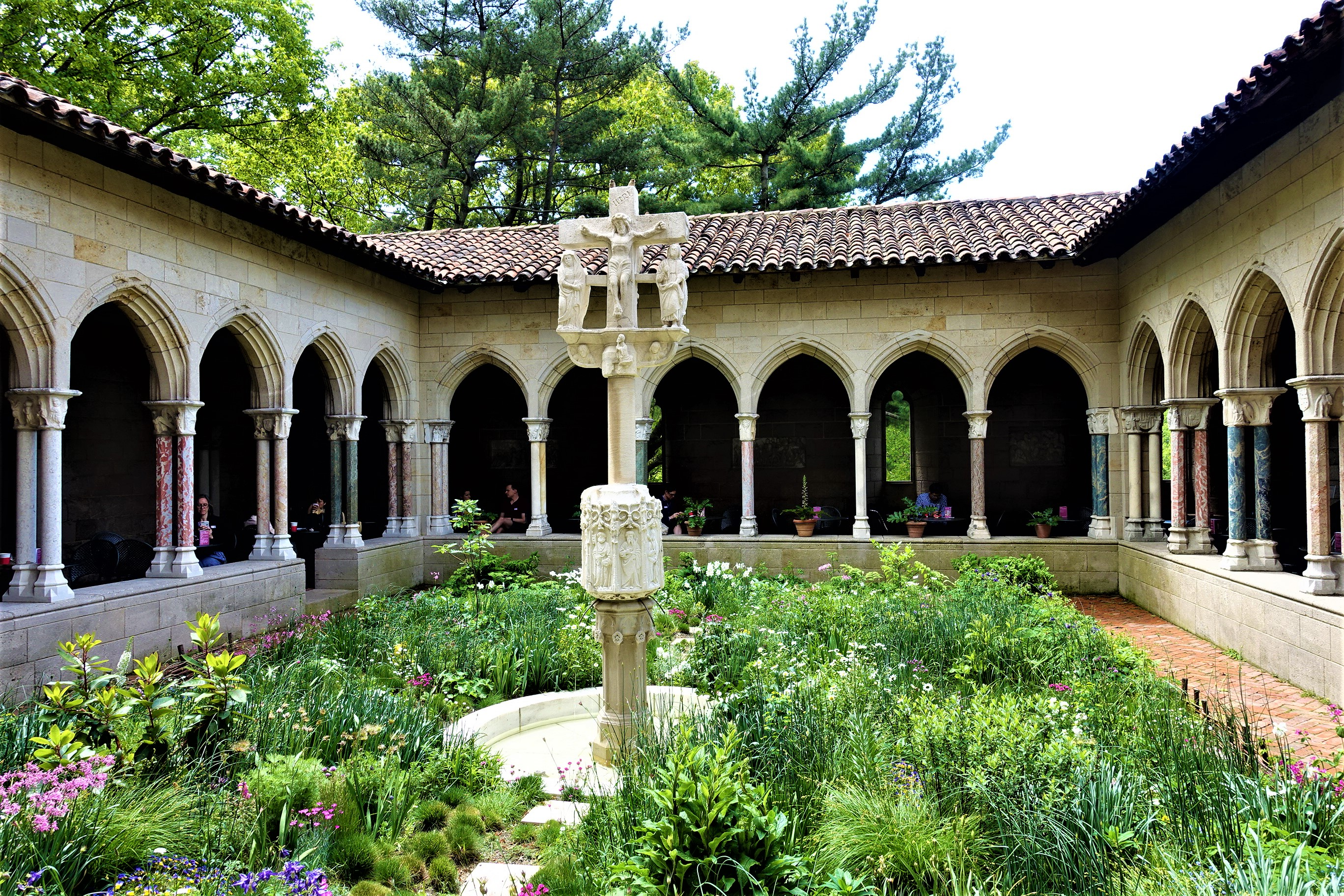 The Cloisters - The MET Cloisters - Metropolitan Museum of Art - Joy of Museums - for details